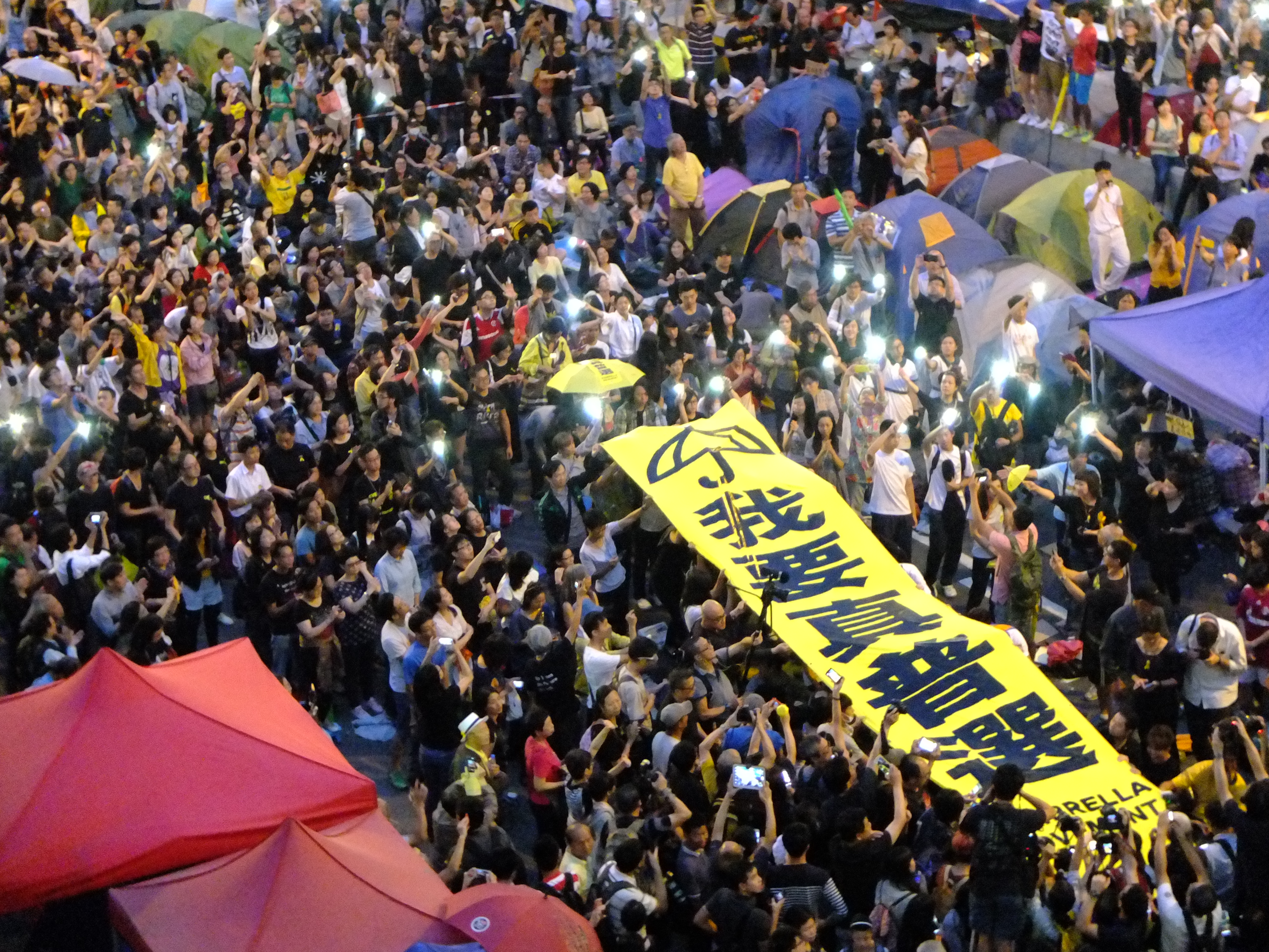 People holding the banner I want real universal suffrage